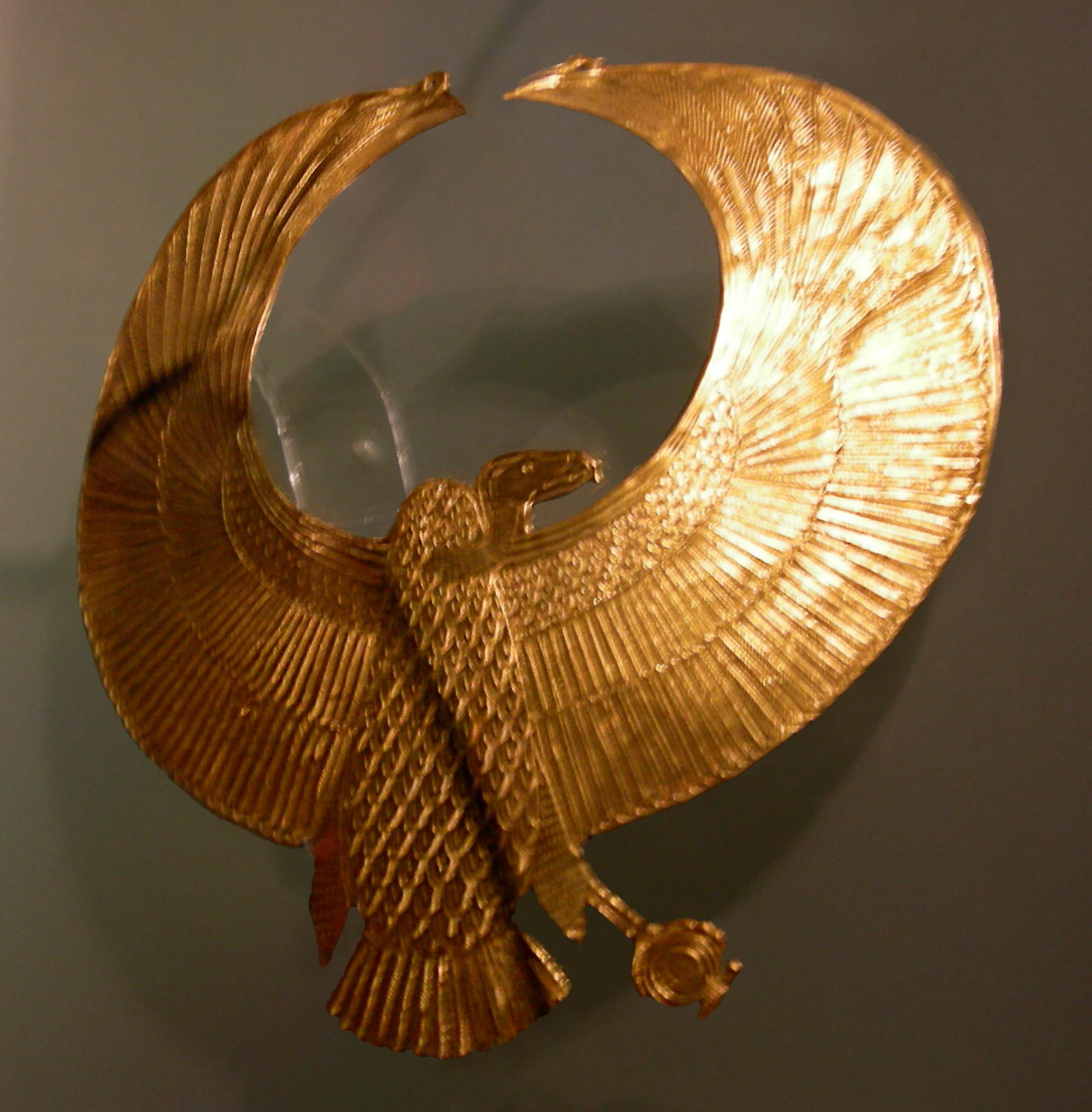 This is the Ancient Egyptian royal vulture pectoral which was found placed on the head of the mysterious late 18th dynasty pharaoh in tomb KV55 of the Valley of the Kings. This king was either Akhenaten or Smenkhkare of the Amarna period. The vulture was displayed at the "Isis y La Serpiente Emplumada" or "Isis and the Plumed Serpent" 2007-2008 art exhibition in Monterrey, Mexico.